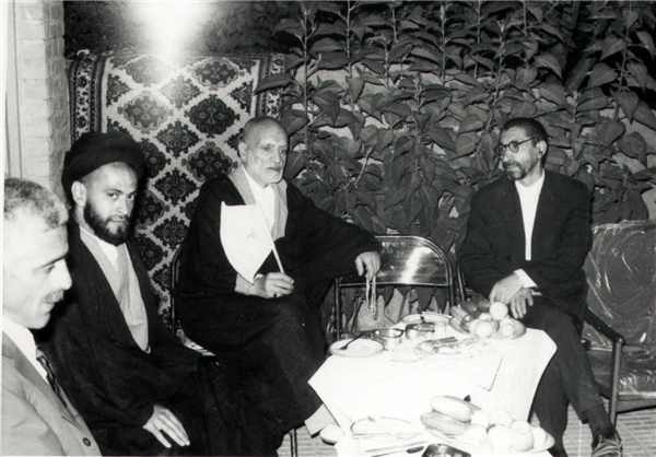 Jalal Al-e-Ahmad